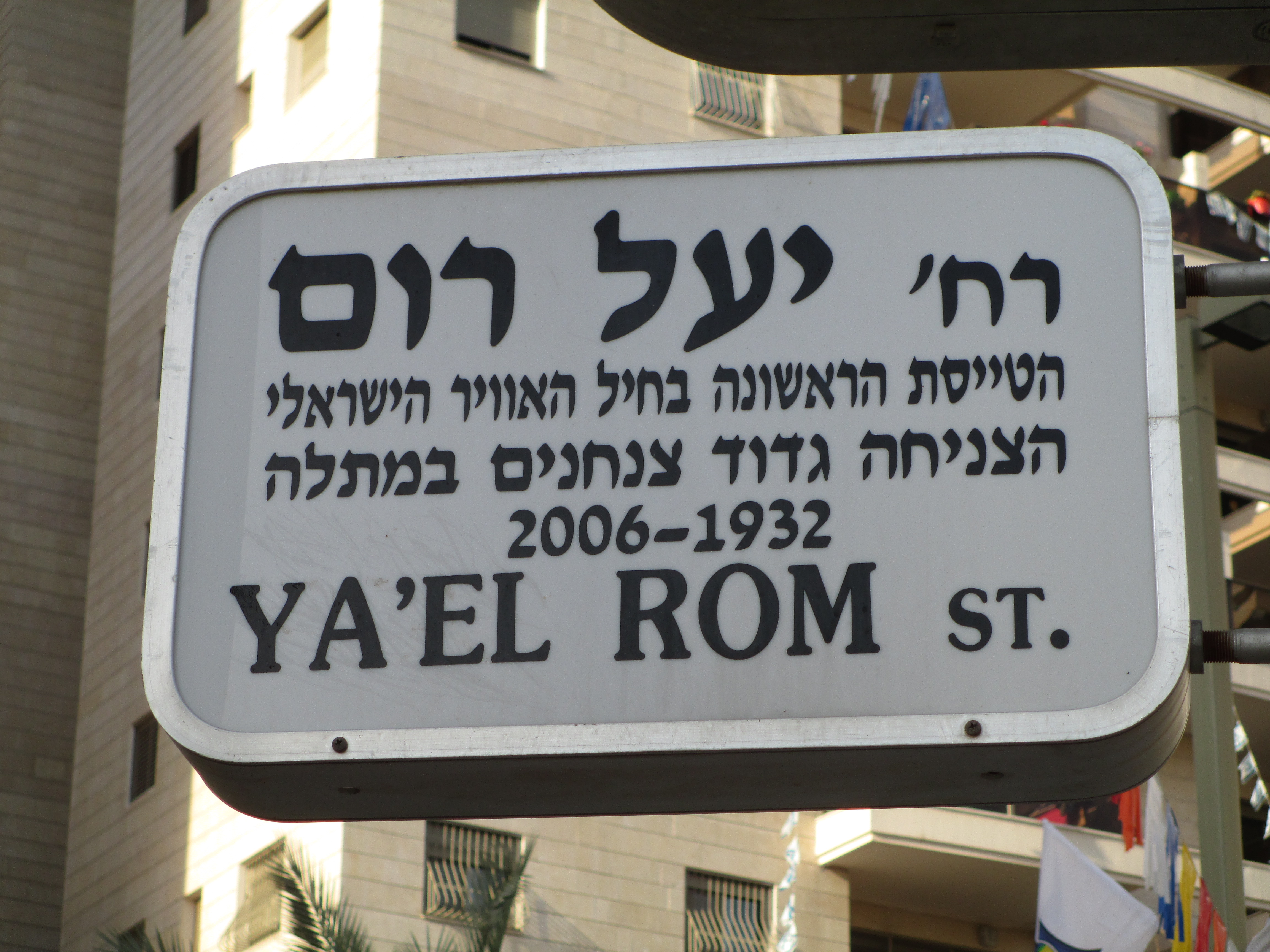 Ya'el Rom Str. in Petah Tikva, Israel. רח' יעל רום בפתח תקווה